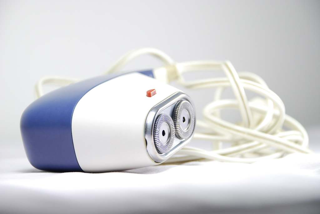 Philips: Electric Razor. Philishave "Hé Man" with built-in voltage switch (SC7920). Year: 1962.